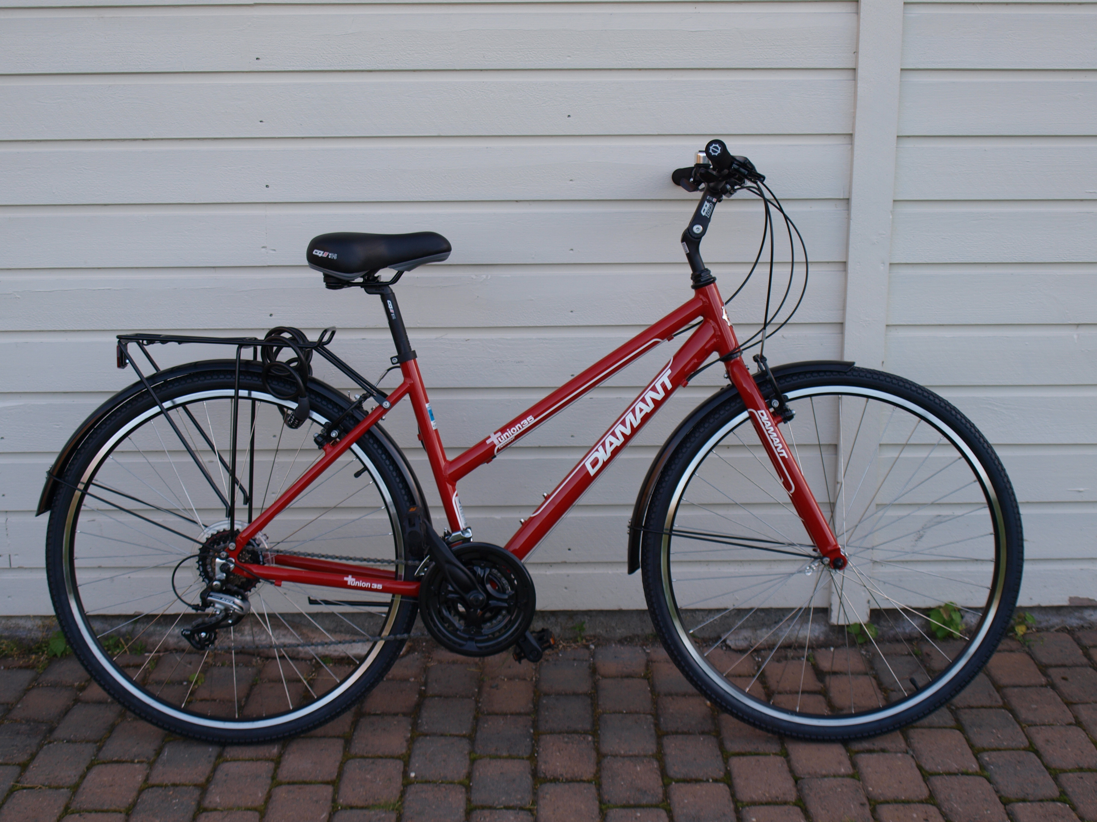 Norwegian bicycle Diamant Union 35 FSD (2010 model).